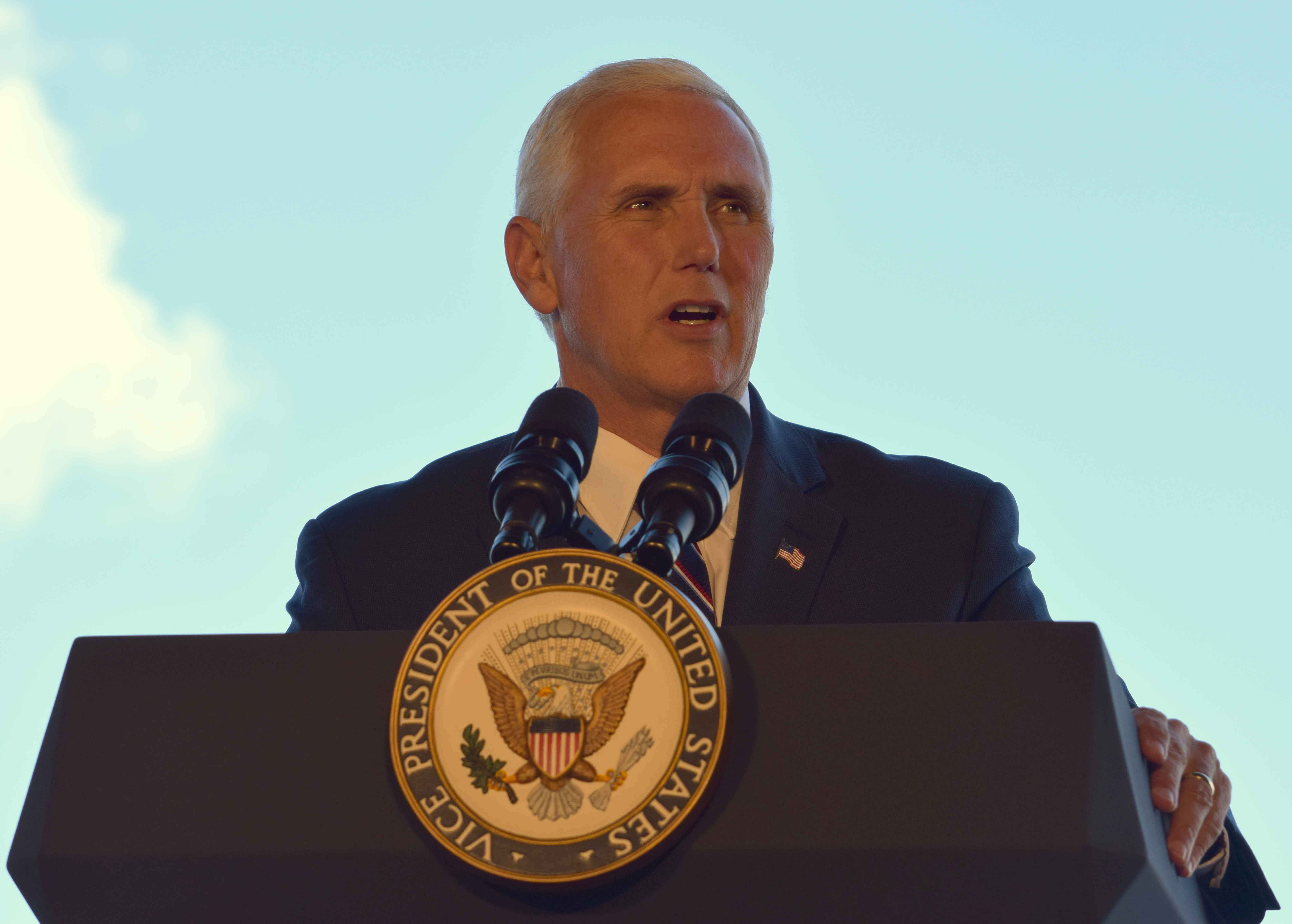 DOBBINS AIR RESERVE BASE, Marietta, Ga. June 9, 2017 – Vice President Mike Pence visits service members of the Air Force Reserve and Georgia National Guard during a visit to Atlanta. Georgia National Guard photo by Capt. William Carraway / released